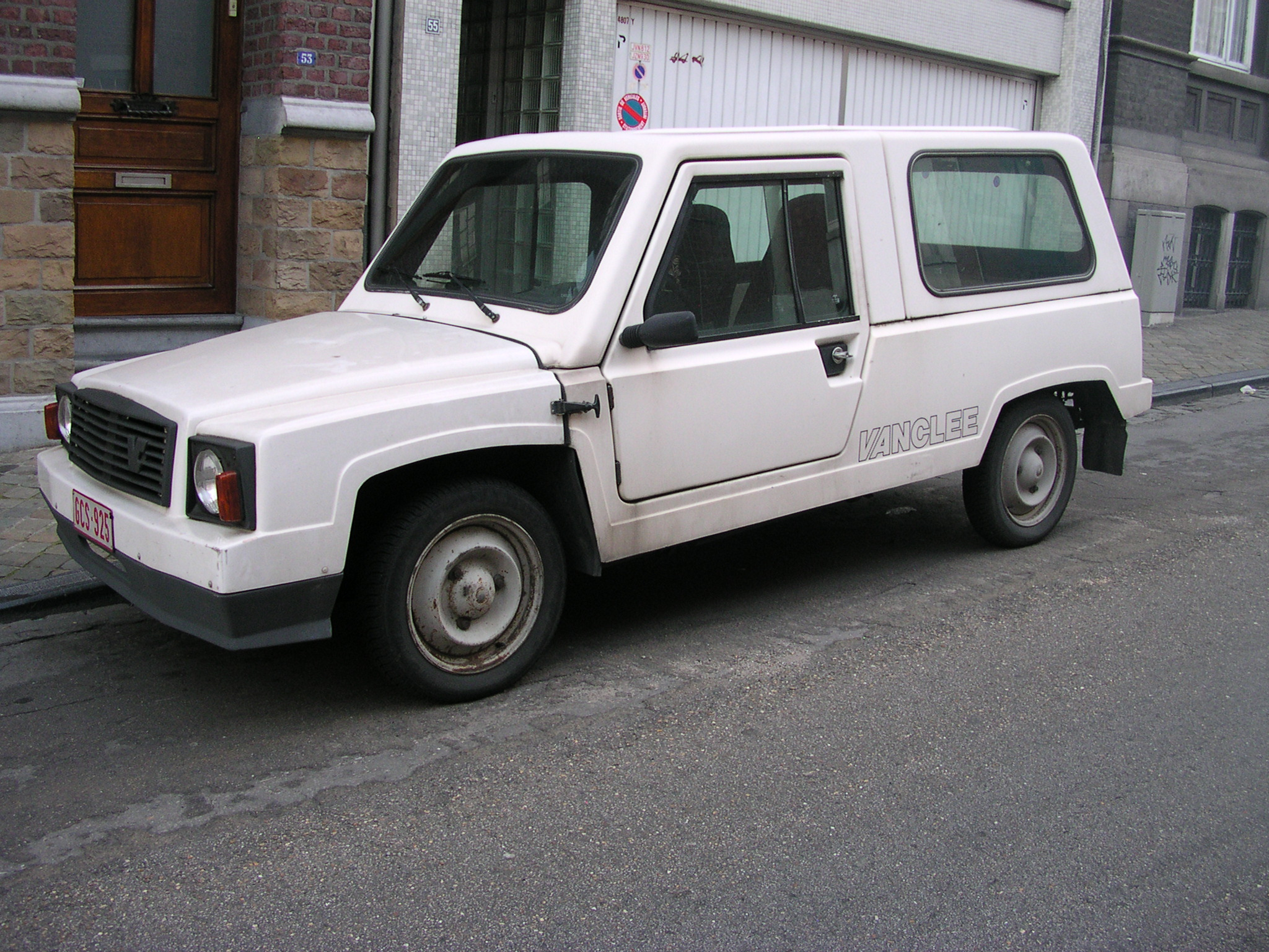 Vanclee Mungo kit on Citroën 2CV, seen in Liege